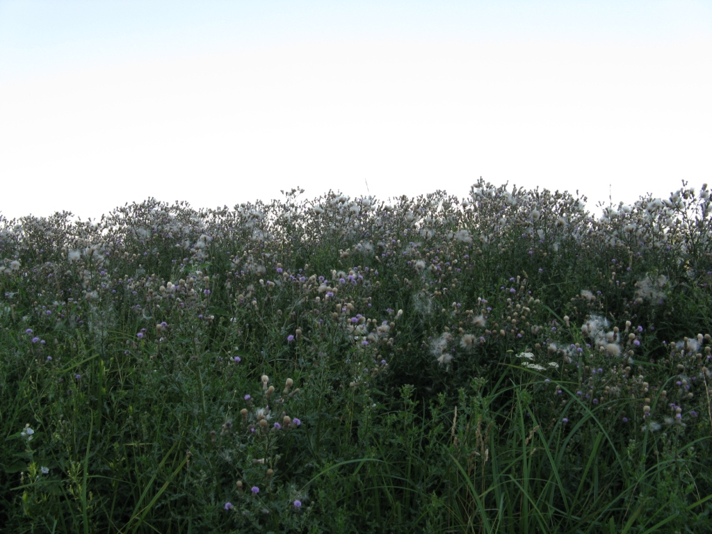 thicket bodyaka